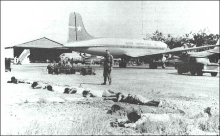 original description: "After the jump an the Stanleyville airfield, rebels who formerly controlled the tower are held on the ground as prisoners"[1]